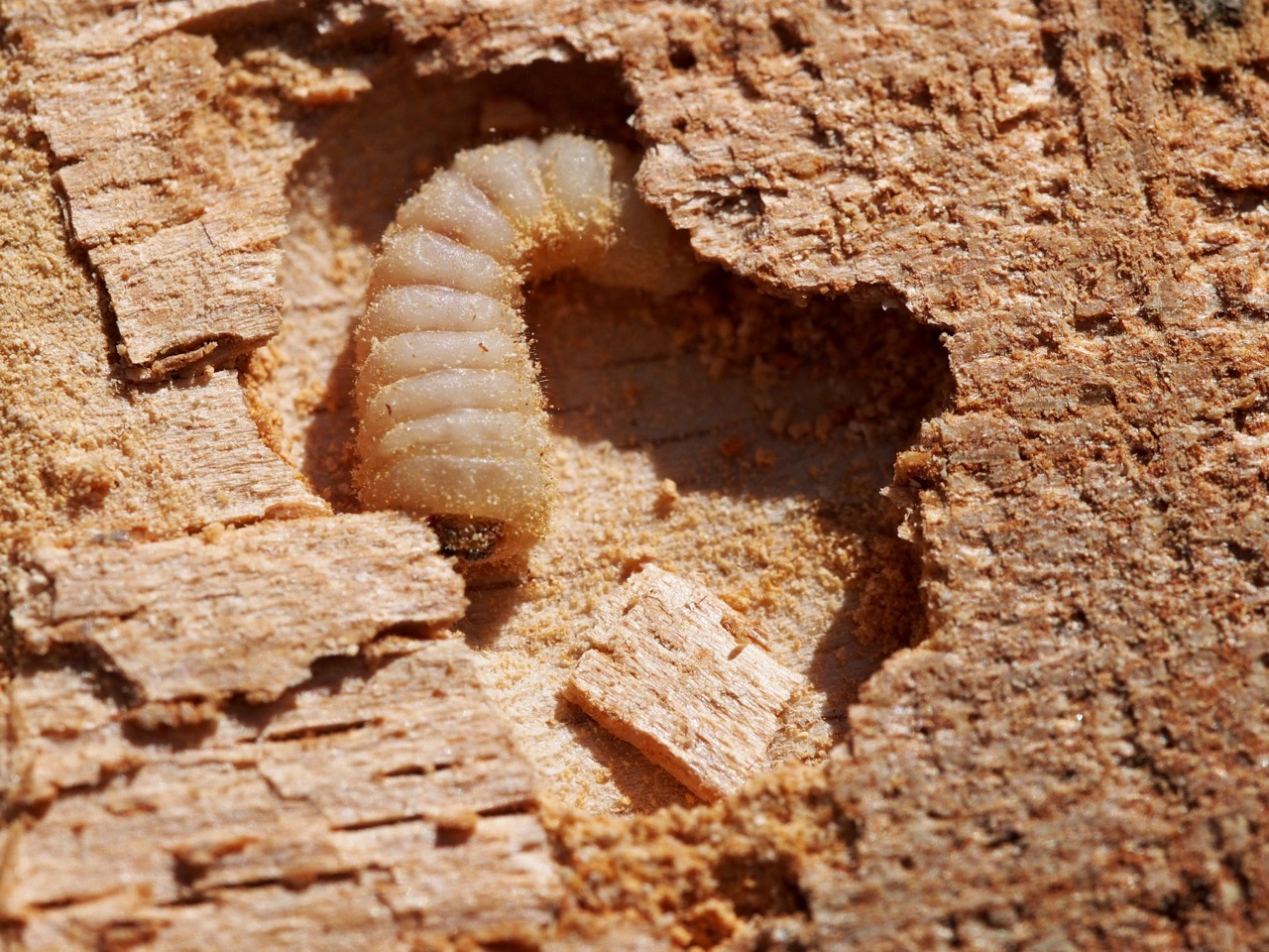 Larva of a phymatodes testaceus, found on beech wood